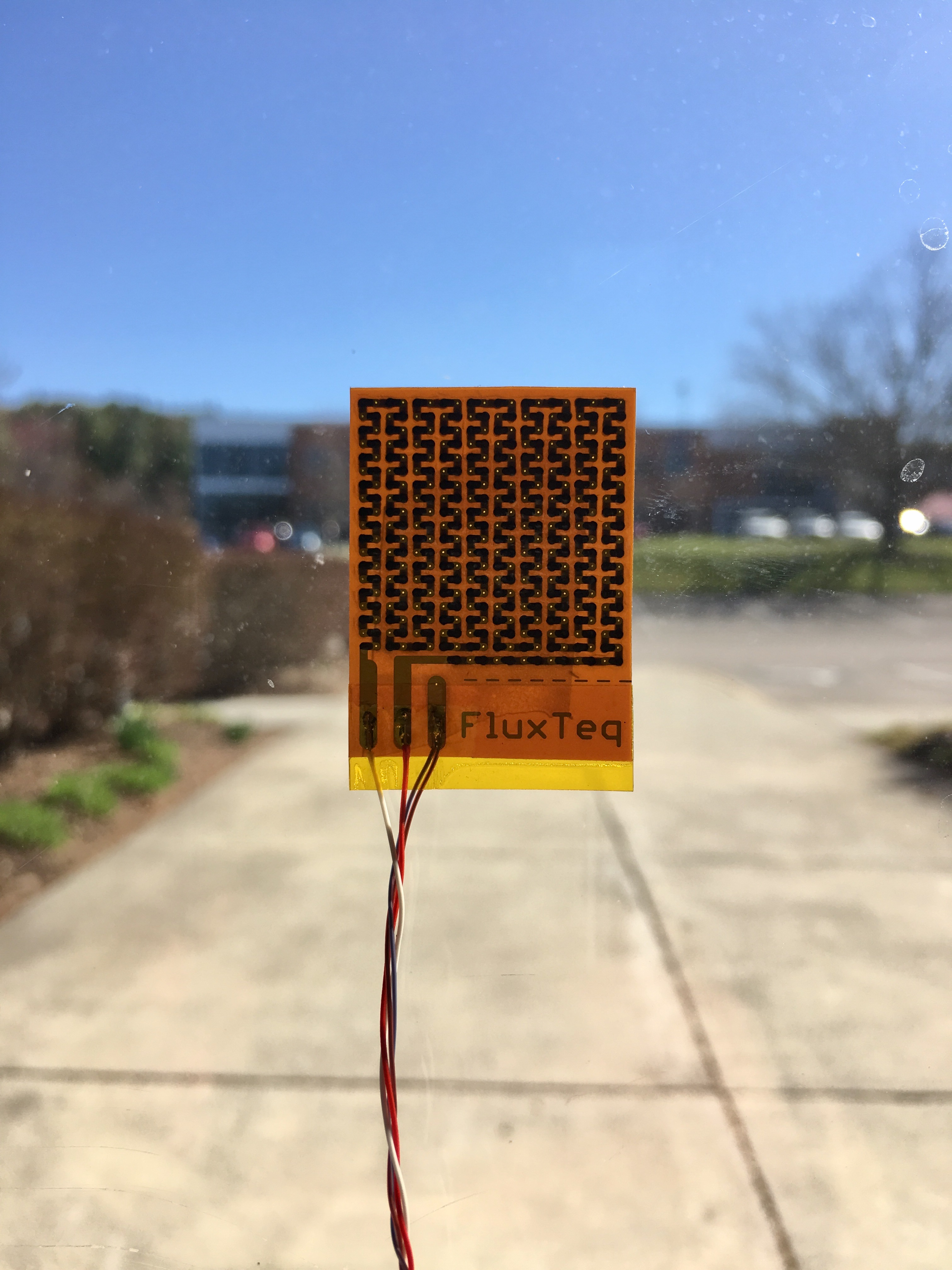 Picture of a thin-film heat flux sensor. Photo shows model FluxTeq PHFS-01 heat flux sensor. The sensor is shown mounted on a window and can measure the amount of heat transfer through the window, and potentially determine its R-value / U-value.